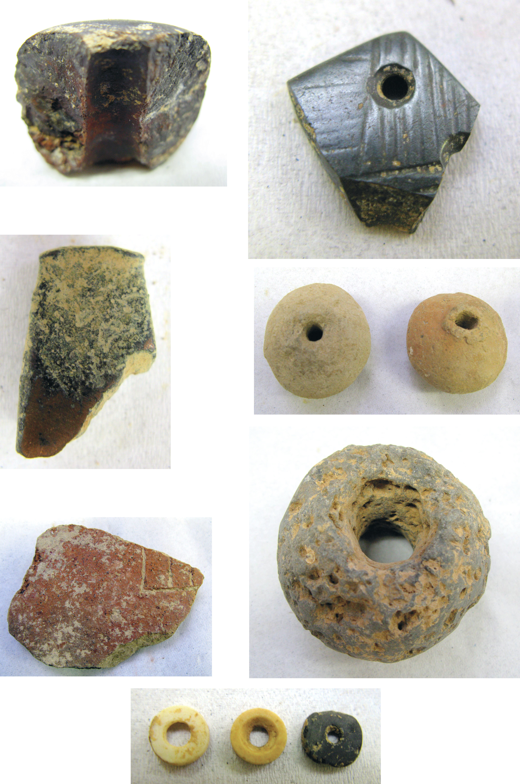 Fatzael 2 - Chalcolithic Archaeological site in Jordan Valley פצאל 2 - אתר ארכאולוגי מהתקופה הכלקוליתית - האתר שוכן בבקעת הירדן ליד היישוב פצאל This work is free and may be used by anyone for any purpose. If you wish to use this content, you do not need to request permission as long as you follow any licensing requirements mentioned on this page.